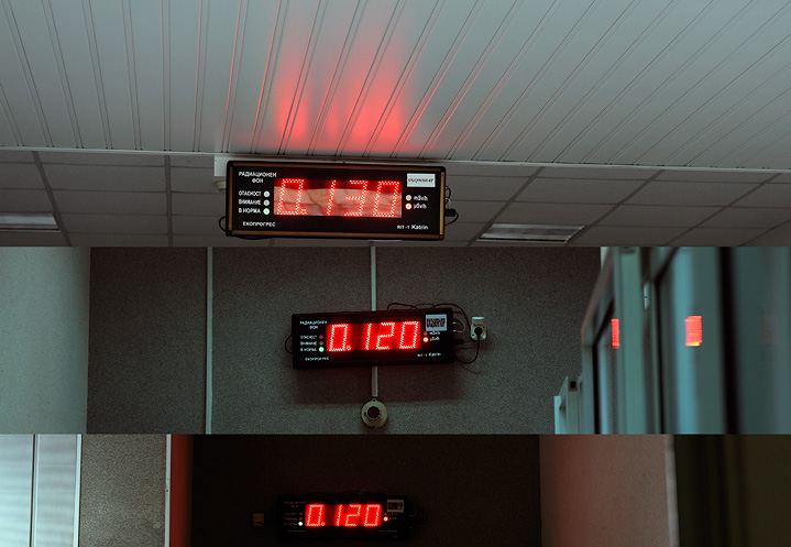 A composite image of several background radiation displays situated inside the Kozloduy Nuclear Power Plant. Top to bottom: at the entrance of Unit 5; inside the control room of the inactive Units 1 and 2; inside the control room of the shut-down, but still full of nuclear fuel Units 3 and 4. All values are in µSv/h.